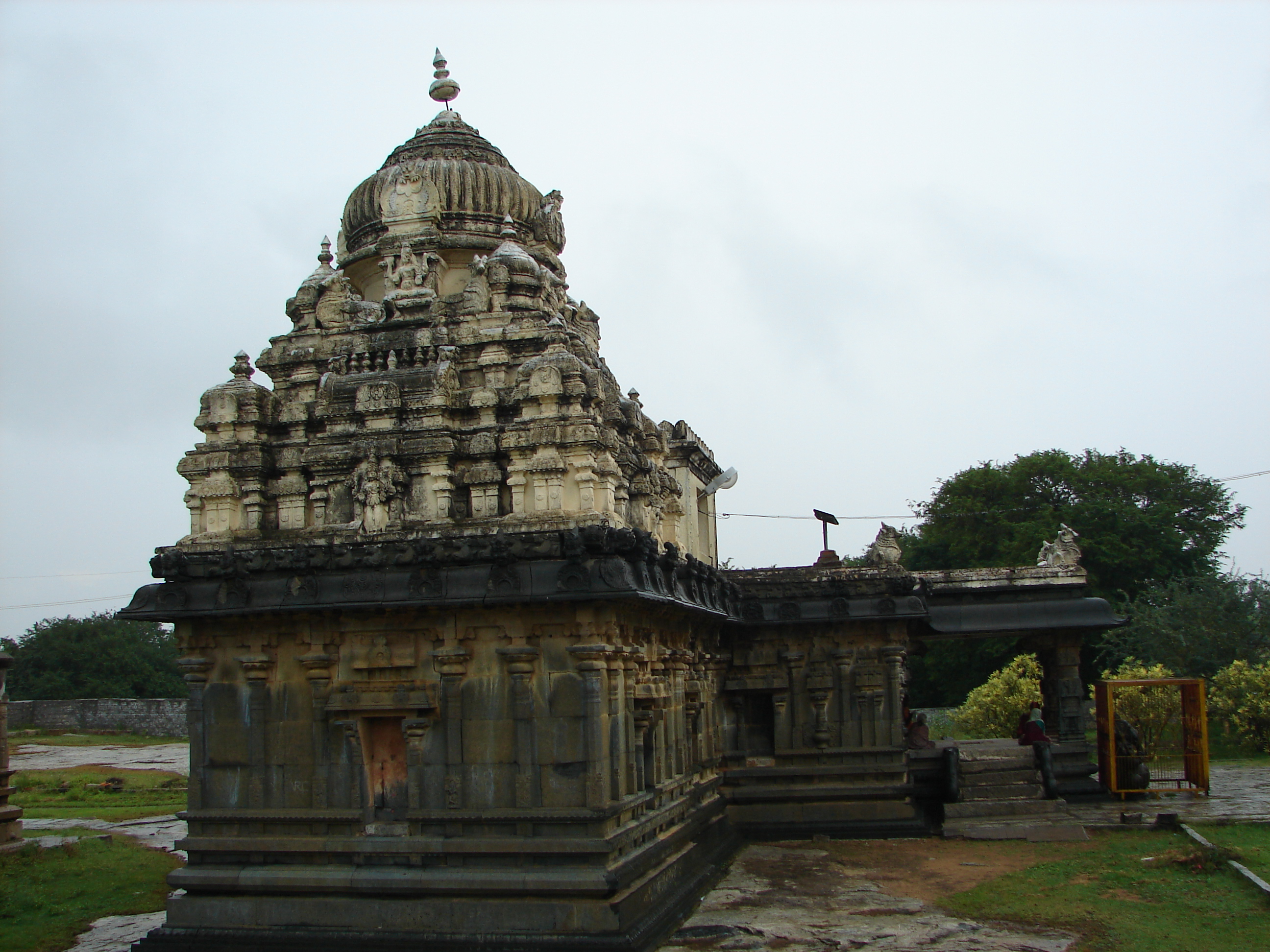 This photograph was taken by me at the Someshvara temple (also spelt Someshwara) in Kurudumale, Kolar district, Karnataka state, India. The architecture is Dravidian in style.